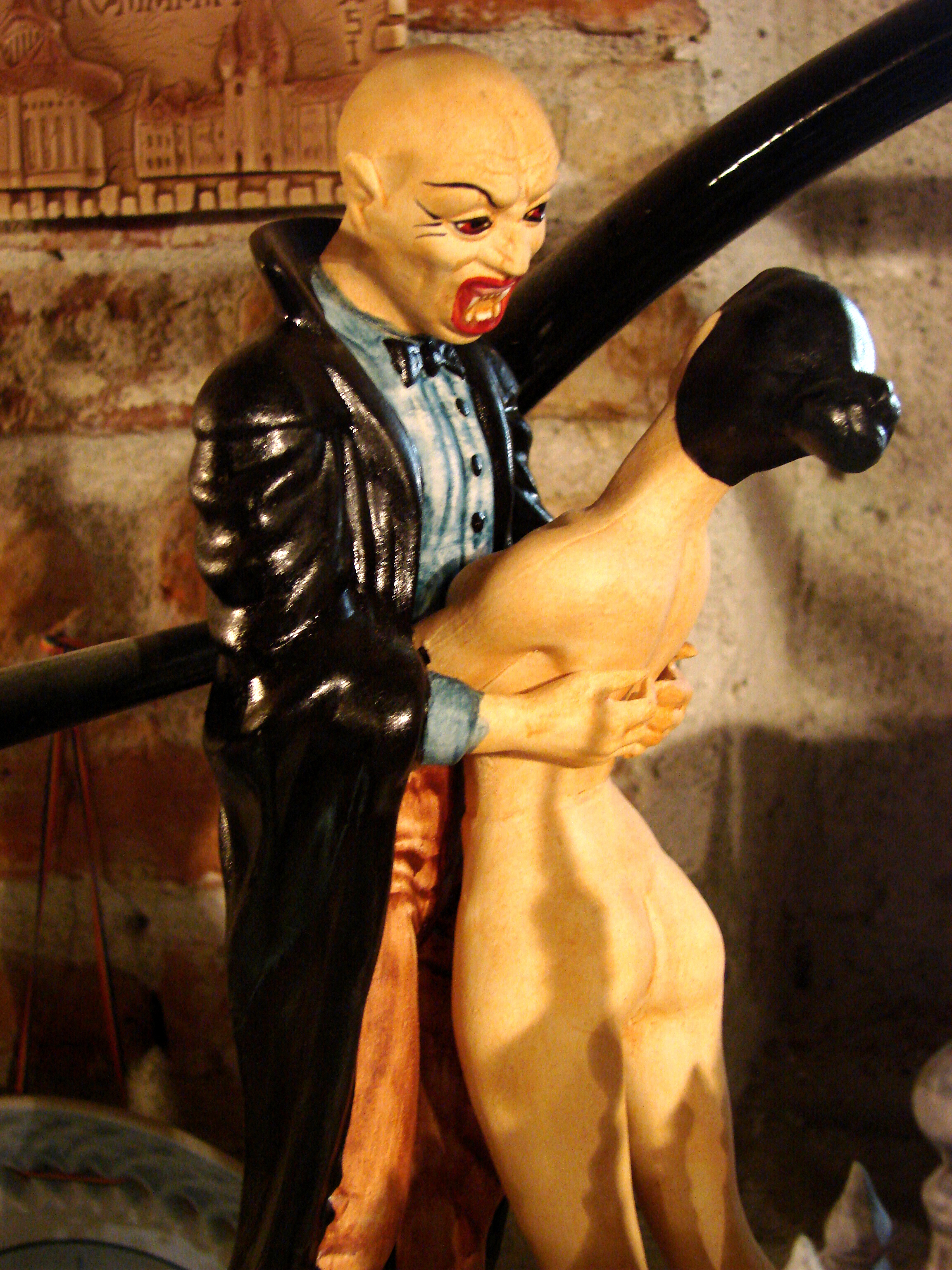 Dracula biting - a souvenir for sale in a shop in Sighisoara, Romania. June 2007.